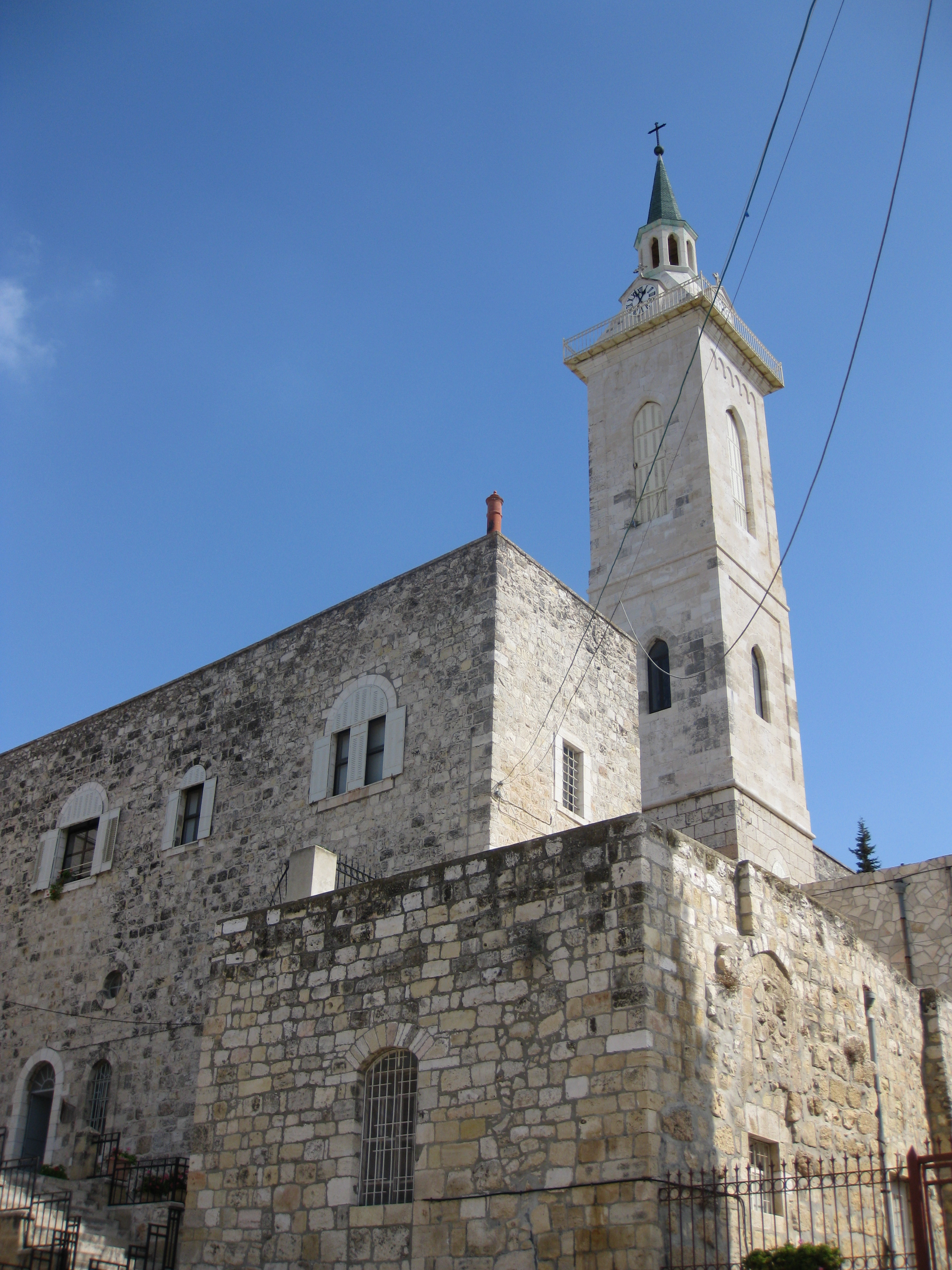 St. John the Baptist in the Mountains